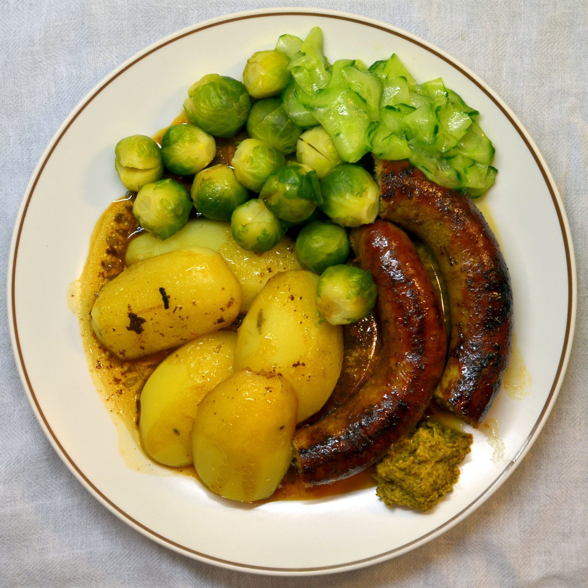 A simple Dutch meal of braadworst (sausage fried in butter), boiled potatoes, boiled Brussels sprouts, and a cucumber salad. The gravy comes from the butter used for frying the sausage and a dollop of coarse Dutch mustard is for added taste.